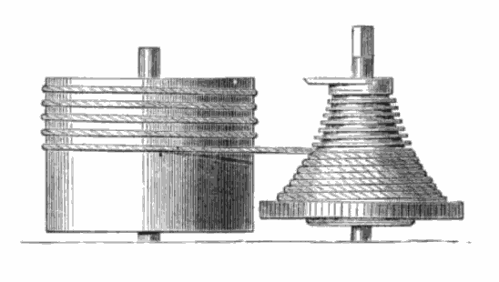 Drawing of a fusee, a device used in early mechanical clocks and watches to even out the force of the mainspring as it unwound. The fusee is the cone shaped pulley on the right, attached to the mainspring barrel on the left.